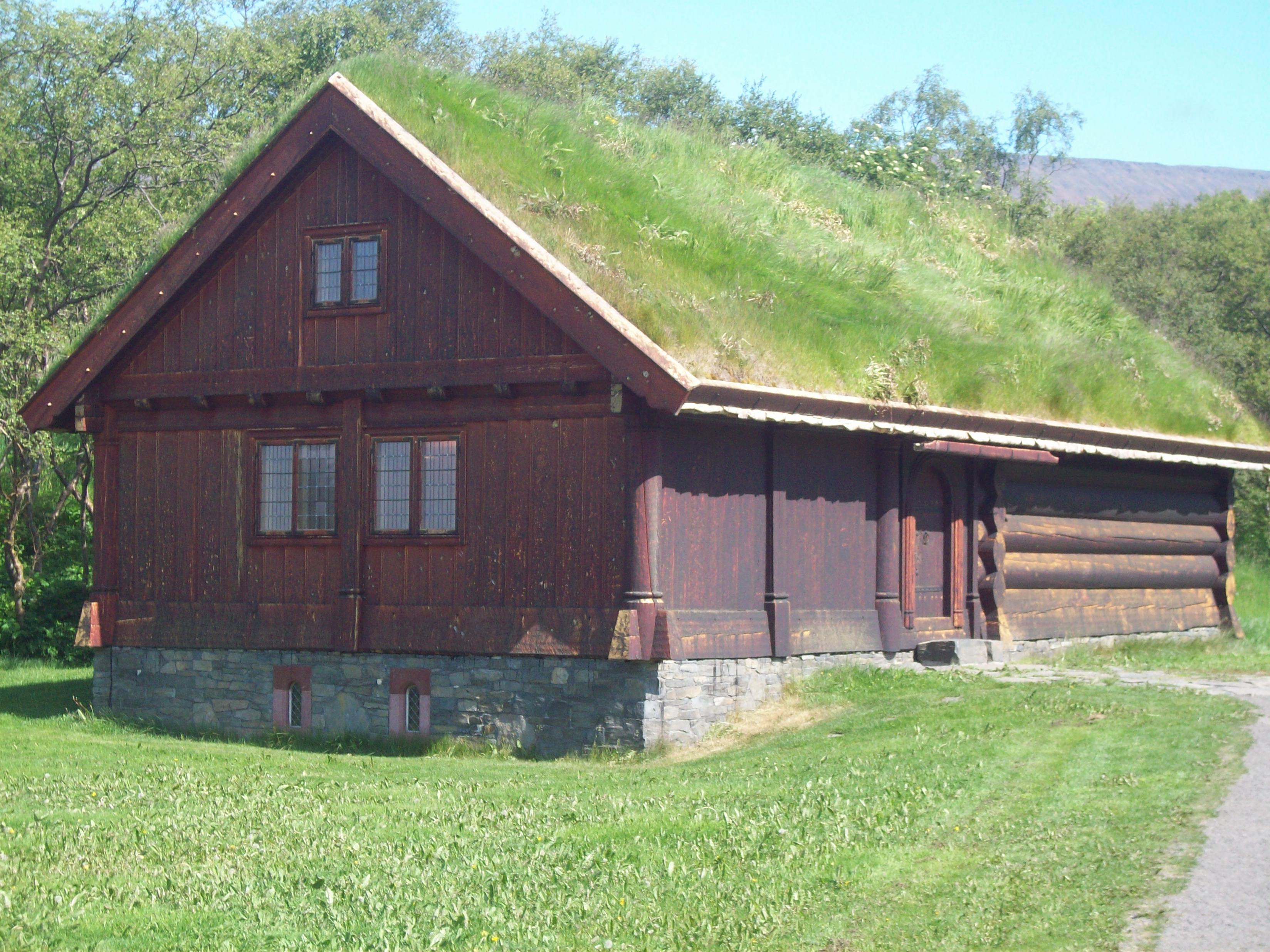 Auðunarstofa at Hólar í Hjaltadal